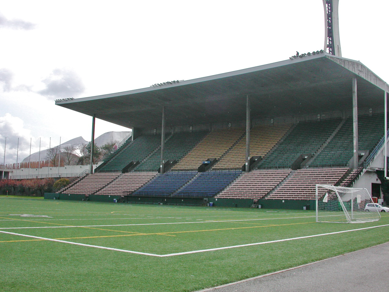 Main Stand at Leon H. Brigham Field with the EMP Museum (left) and Space Needle (right) in the background.